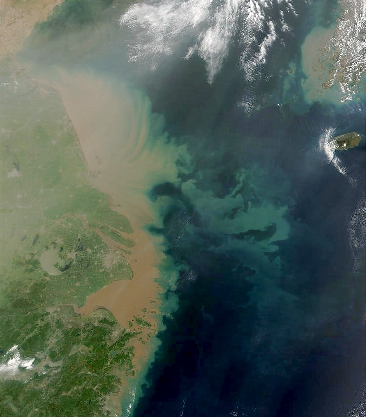 Tan-colored sediment spills out into the Yellow Sea from rivers in eastern China. The nutrients in the sediment may be responsible for the bloom of phytoplankton seen as blue and green swirls farther away from shore. On land, grayish dots mark the location of cities and towns.